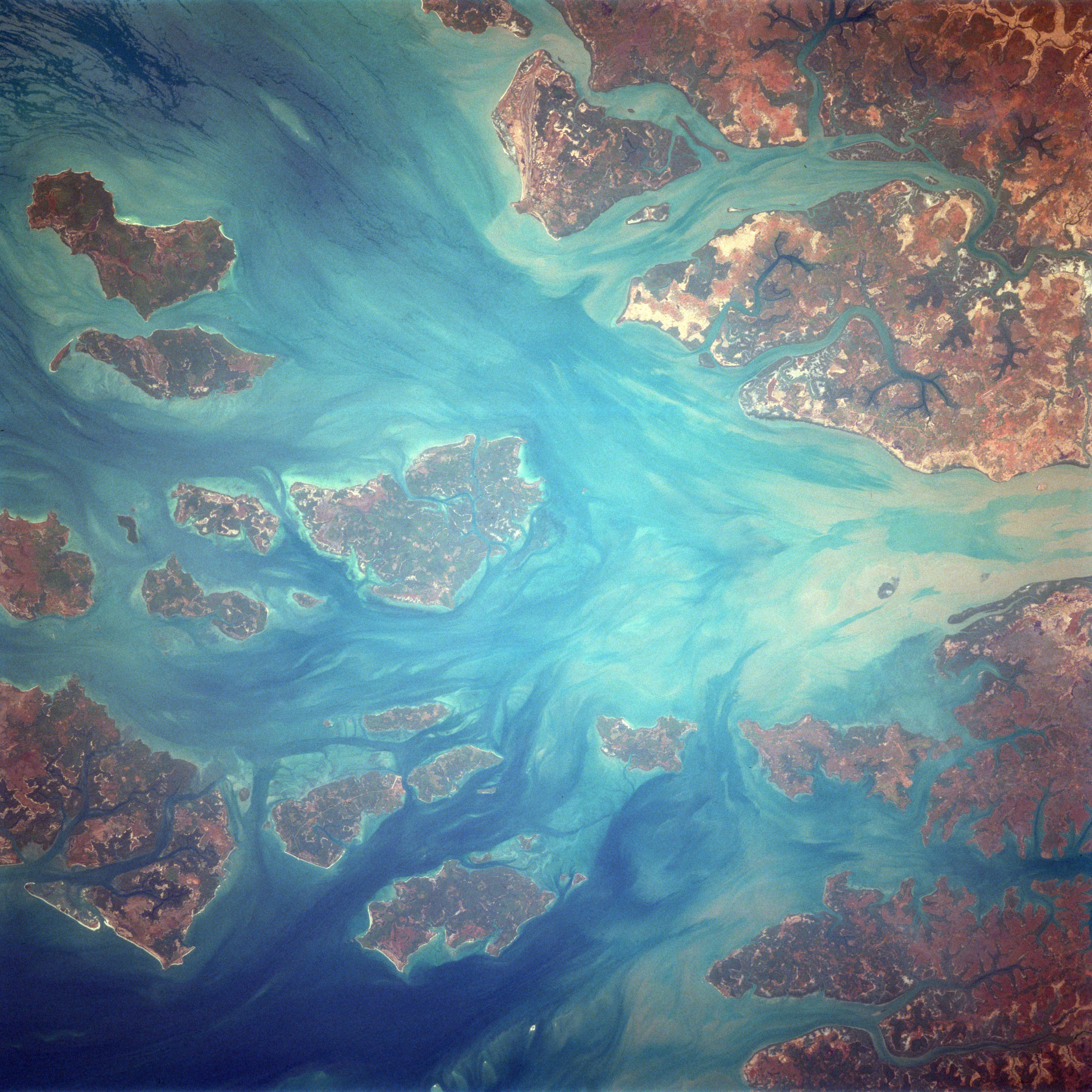 Bissagos Archipel Identification Mission: STS037 Roll: 77 Frame: 71 Mission ID on the Film or image: STS37 Country or Geographic Name: GUINEA-BISSAU Features: ARQUIPELAGO DOS BIJAGOS Center Point Latitude: 11.5 Center Point Longitude: -15.9 (Negative numbers indicate south for latitude and west for longitude)